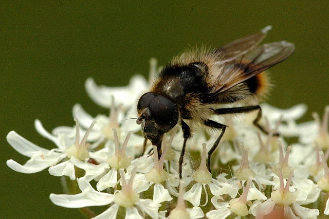 Picture taken in Commanster, Belgian High Ardennes . Species: Cheilosia illustrata